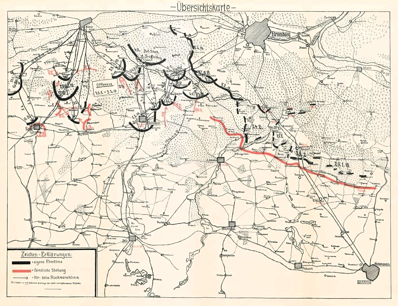 Map of the German "Butteroffensive" during the Greater Poland uprising (1918–1919).